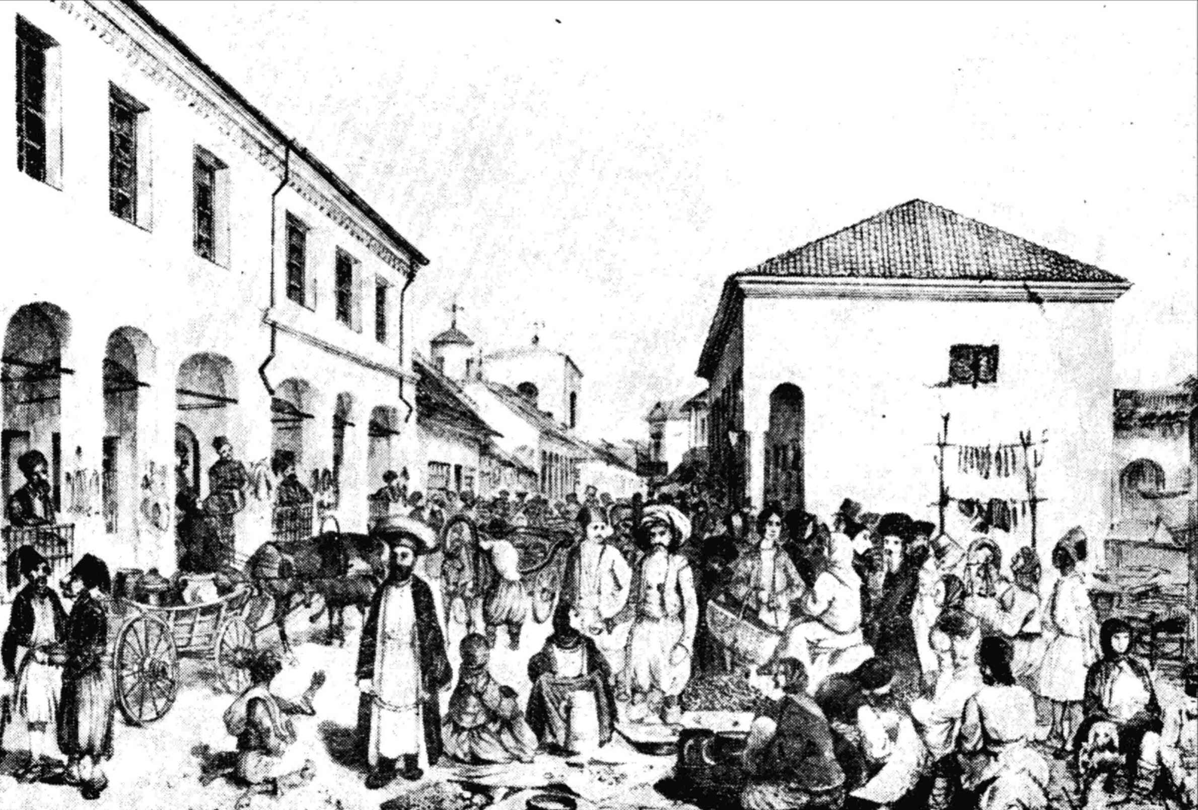 Lithograph of the Good Friday Fair in Iaşi